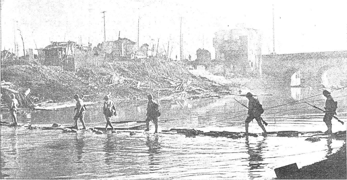 Chiba corps, who crosses Qinhuai River in front of the Nanking castle wall, is going to enter the castle from the Gate of China.(December 13, 1937)